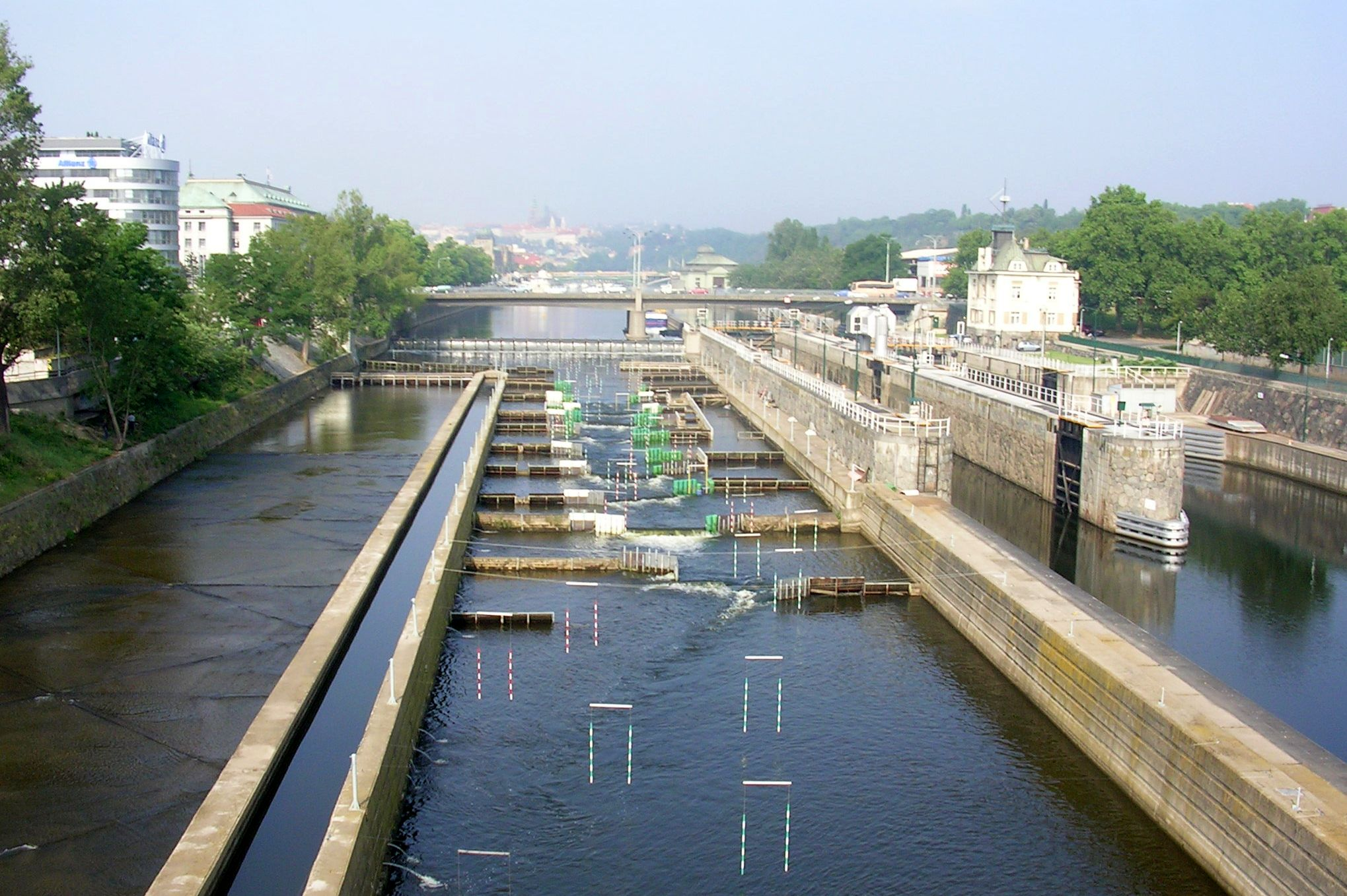 Sluices near Štvanice Insel, Vltava River, Prague, the Czech Republic.